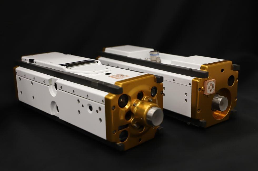 The Seeker spacecraft (lower left) and Kenobi communication relay (upper right)